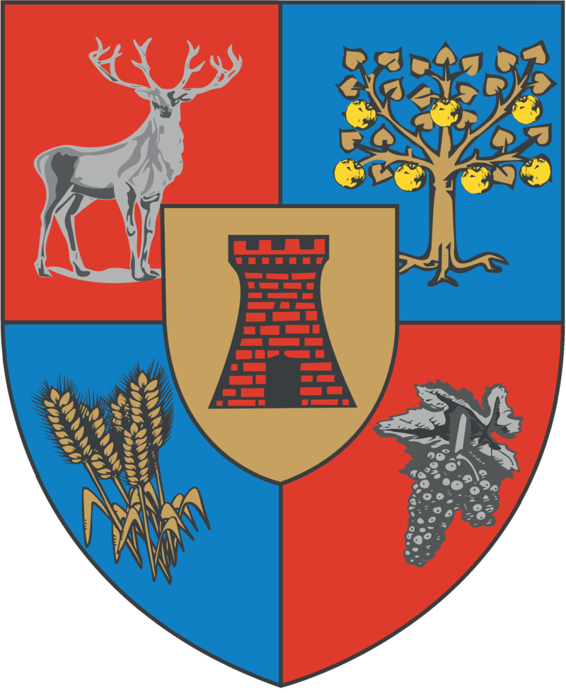 Coat of arms of Satu Mare County, Romania.